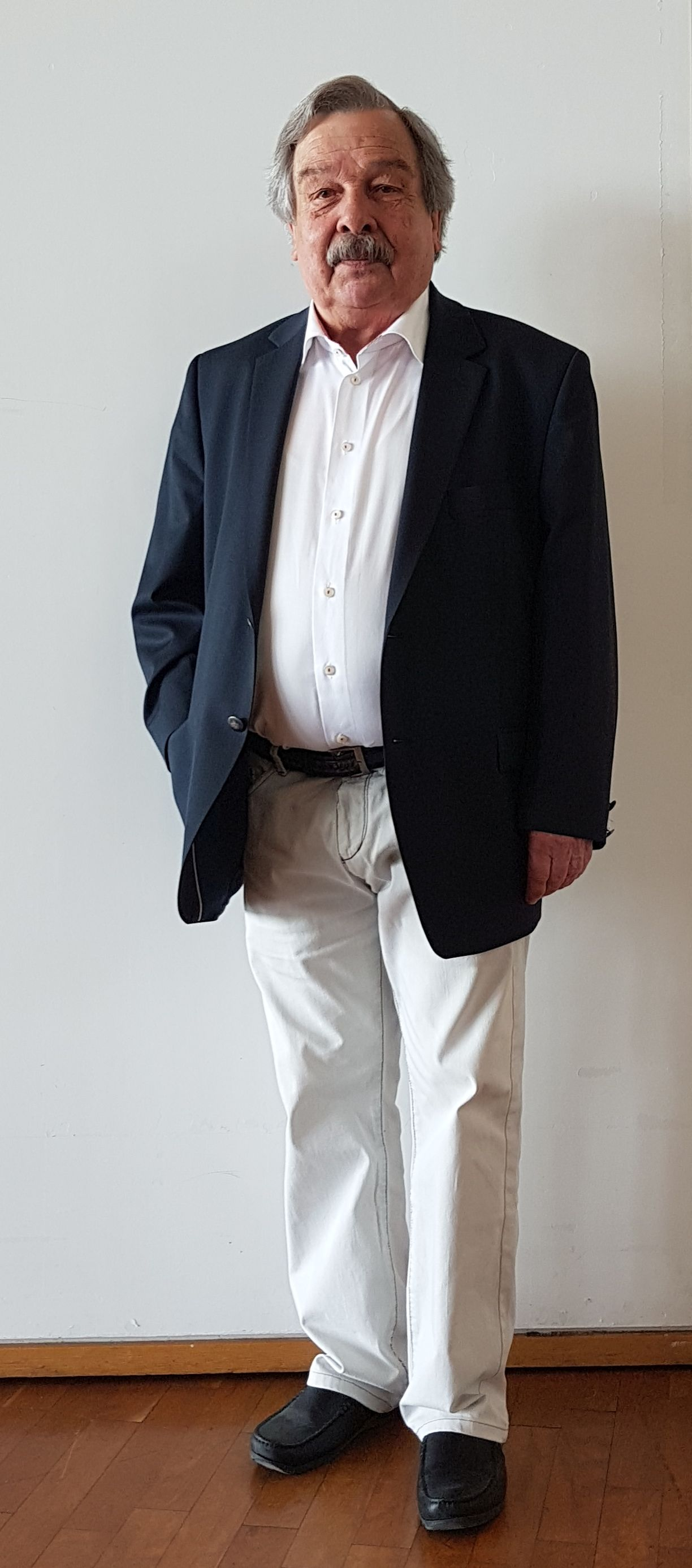 Fredi Alder, Photo taken on the occasion of the event on April 6, 2019 in Friedrichshafen the Socialist Bodensee-International (SBI) in the Graf Zeppelin House.